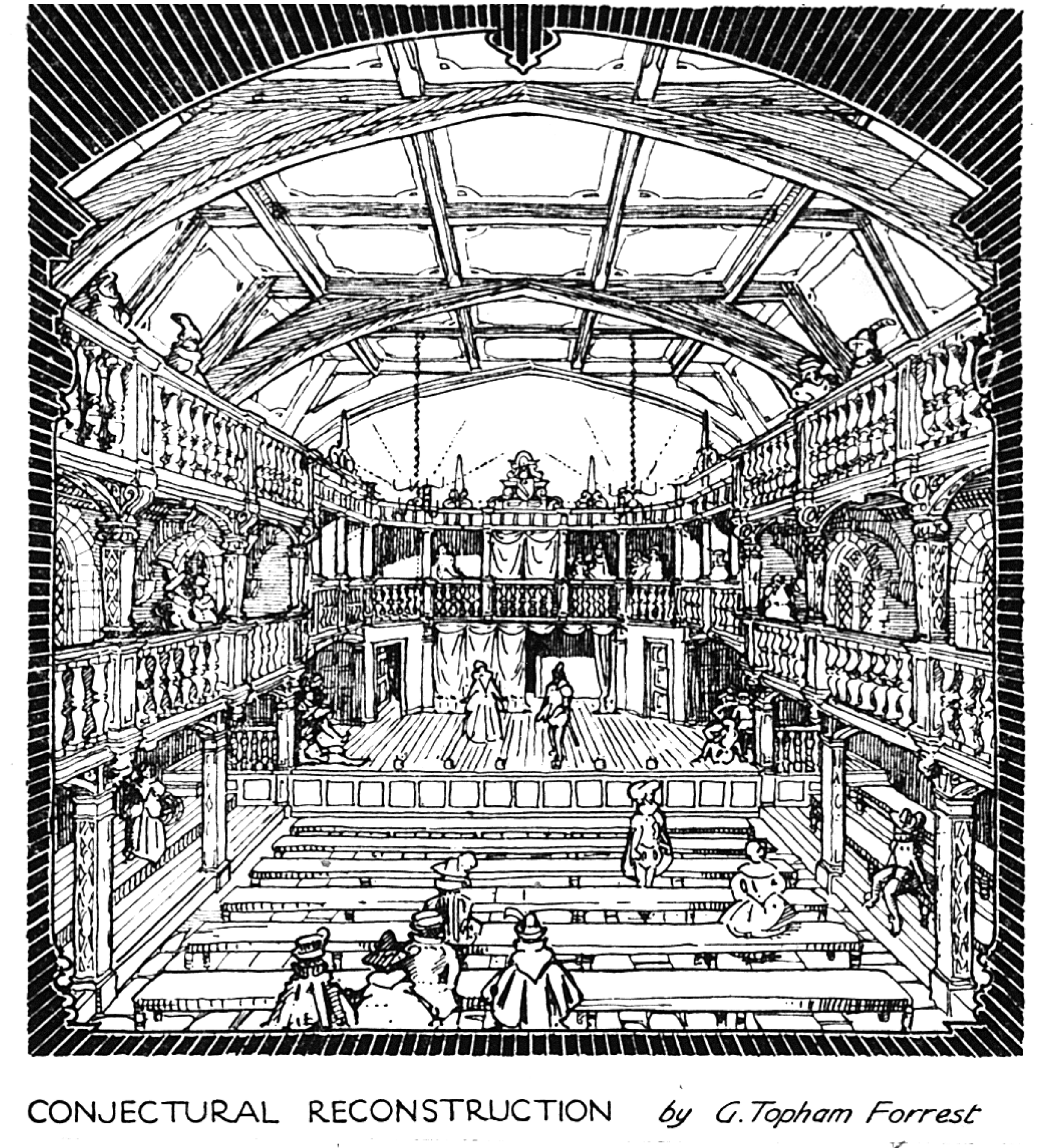 Drawing of the second Blackfriars Theatre according to legal descriptions of the times